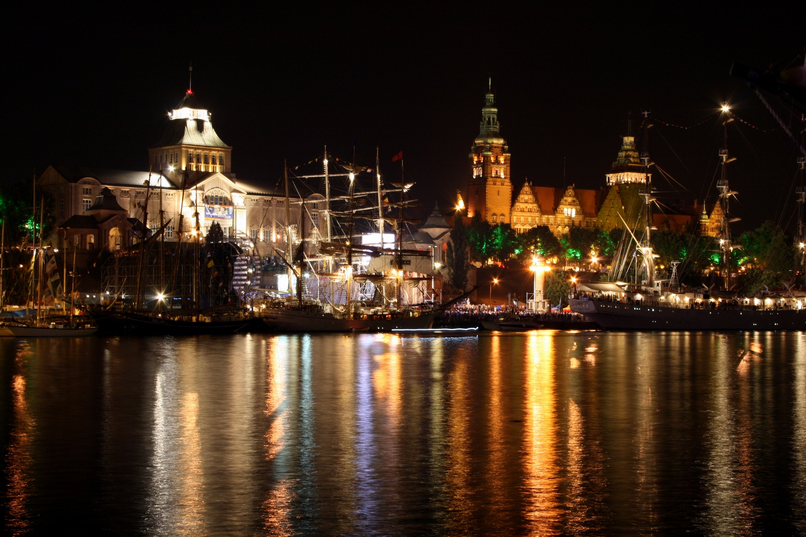 Szczecin by night (as seen from Łasztownia)